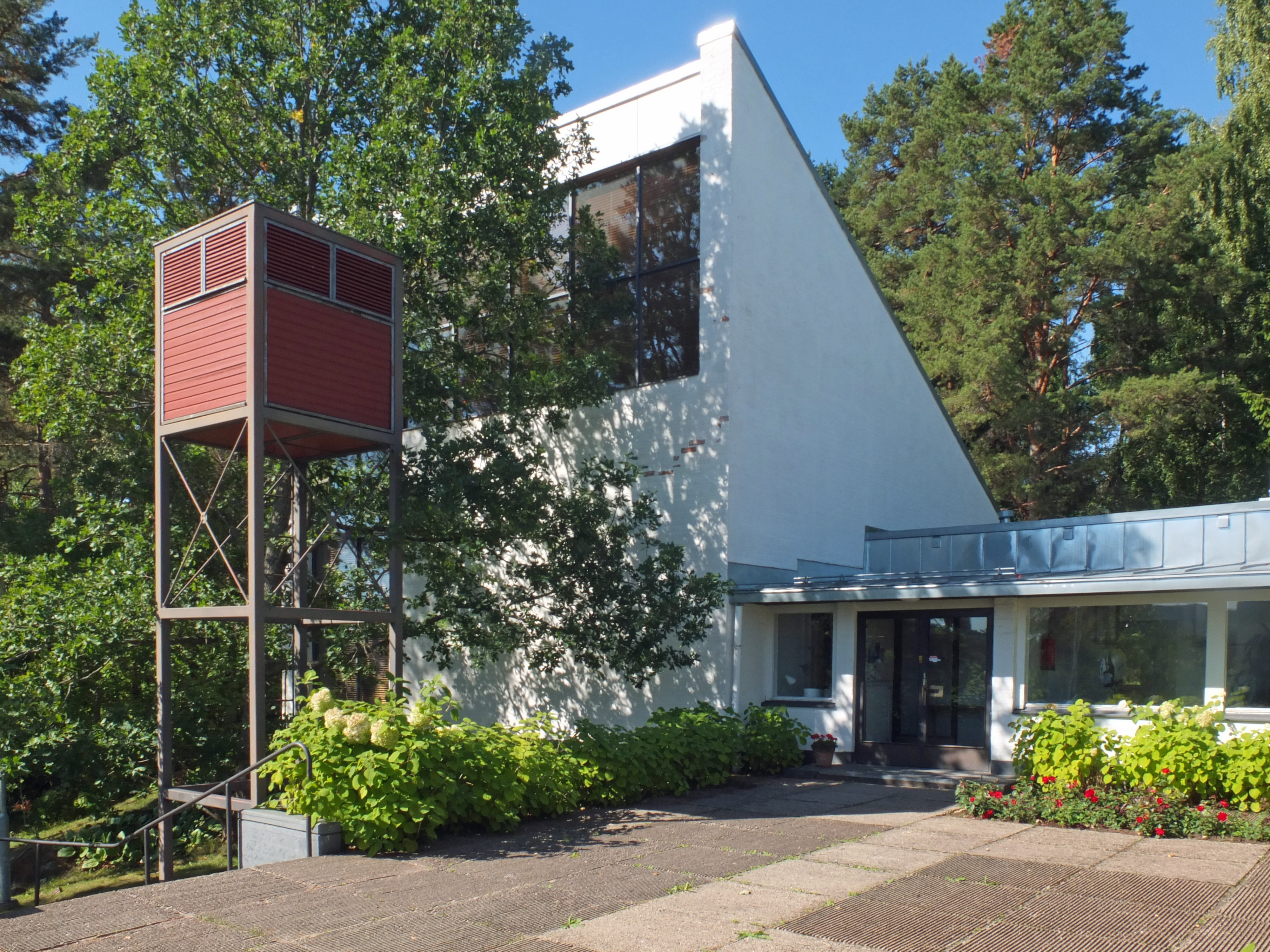 Hirvensalo Church on the island Hirvensalo, southwest from the centre of Turku, Finland. Architect Pekka Pitkänen, 1962.